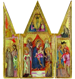 Madona with Christ on the Throne